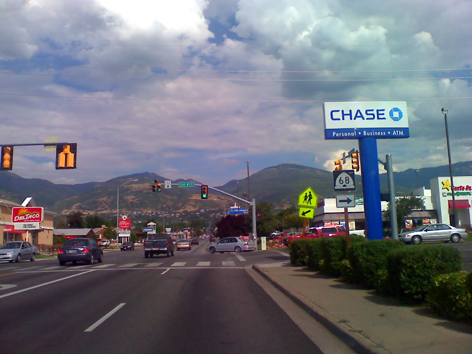 SR-68 in Davis County turning from 500 South to 200 West